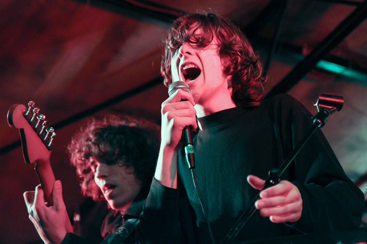 Foxygen's core members Jonathan Rado (left) and Sam France (right) performing at Mohawk in Austin, TX